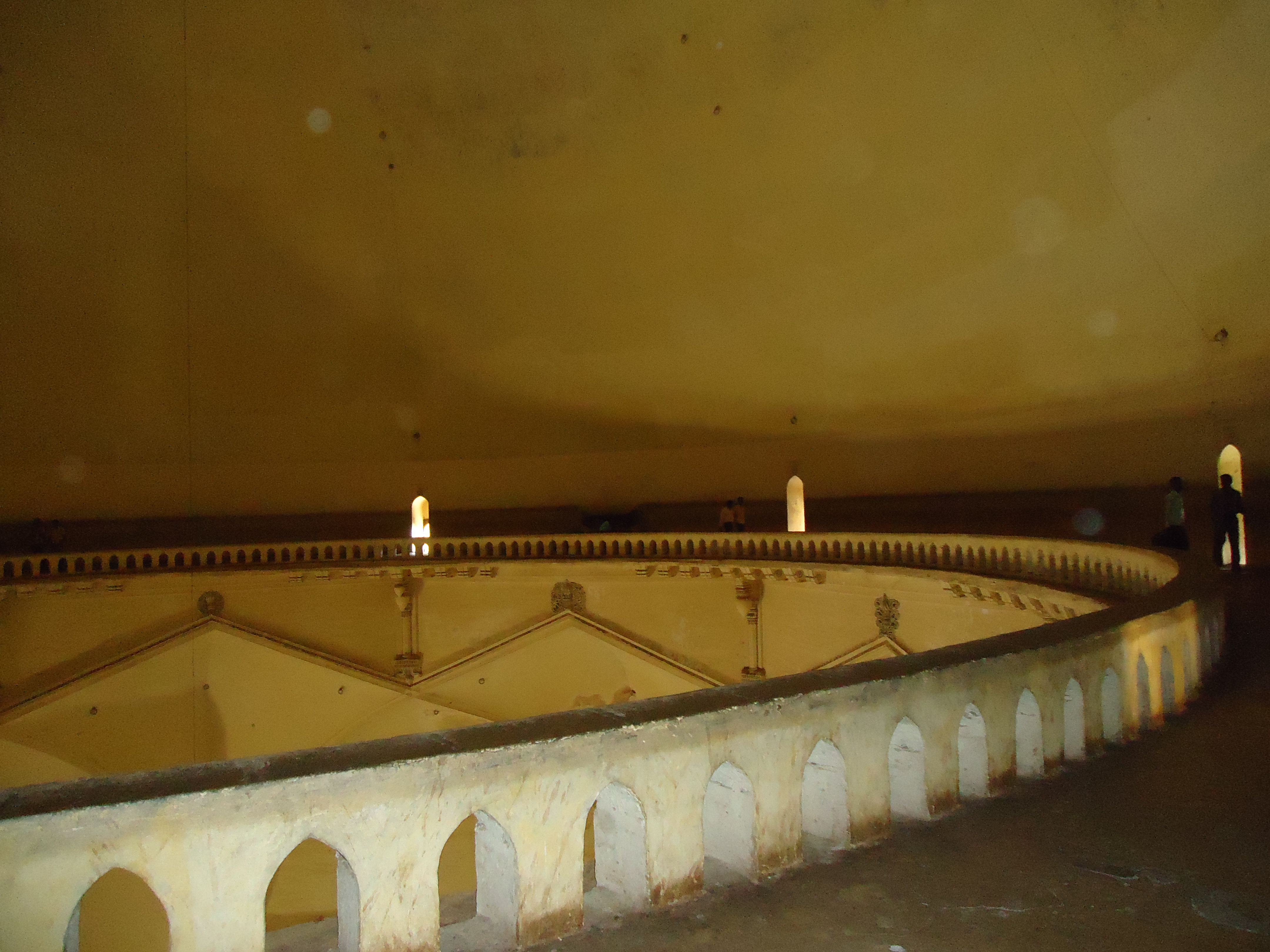 Whispering Gallery of Gol Gumbaz A particular attraction of Gol Gumbaz is the Whispering Gallery,where every sound is echoed seven times.